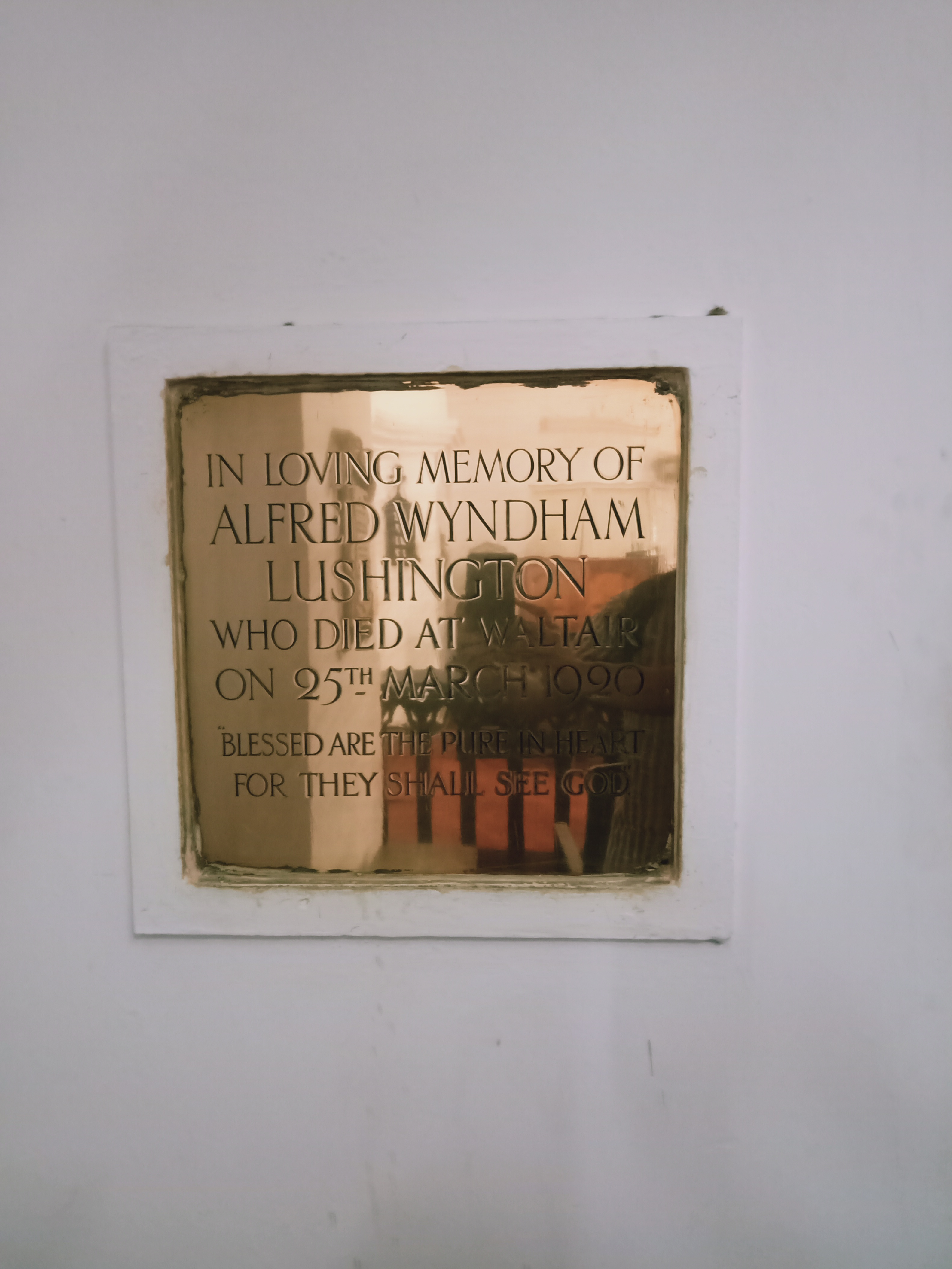 Tablet to Alfred Wyndham Lushington, St Paul's Church, Vizag